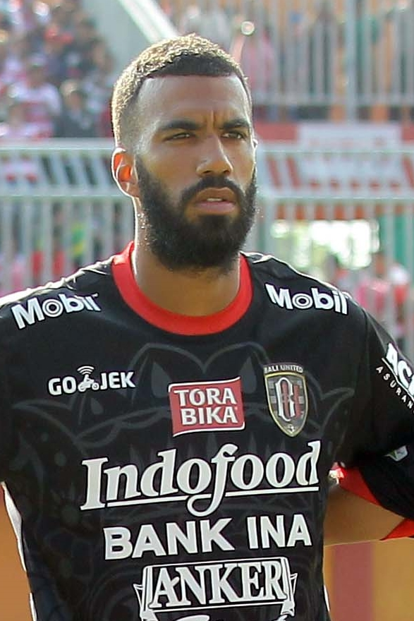 Laga home perdana GoJek Traveloka Liga 1 Madura United melawan Bali United Yang berakhir dengan skor 2-0 di Stadion Ratu Pamellingan Pamekasan, Jawa Timur, Minggu (16/04/2017) sore. Suci Rahayu